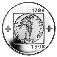 Swiss Commemorative Coin 1998 A CHF 20 obverse